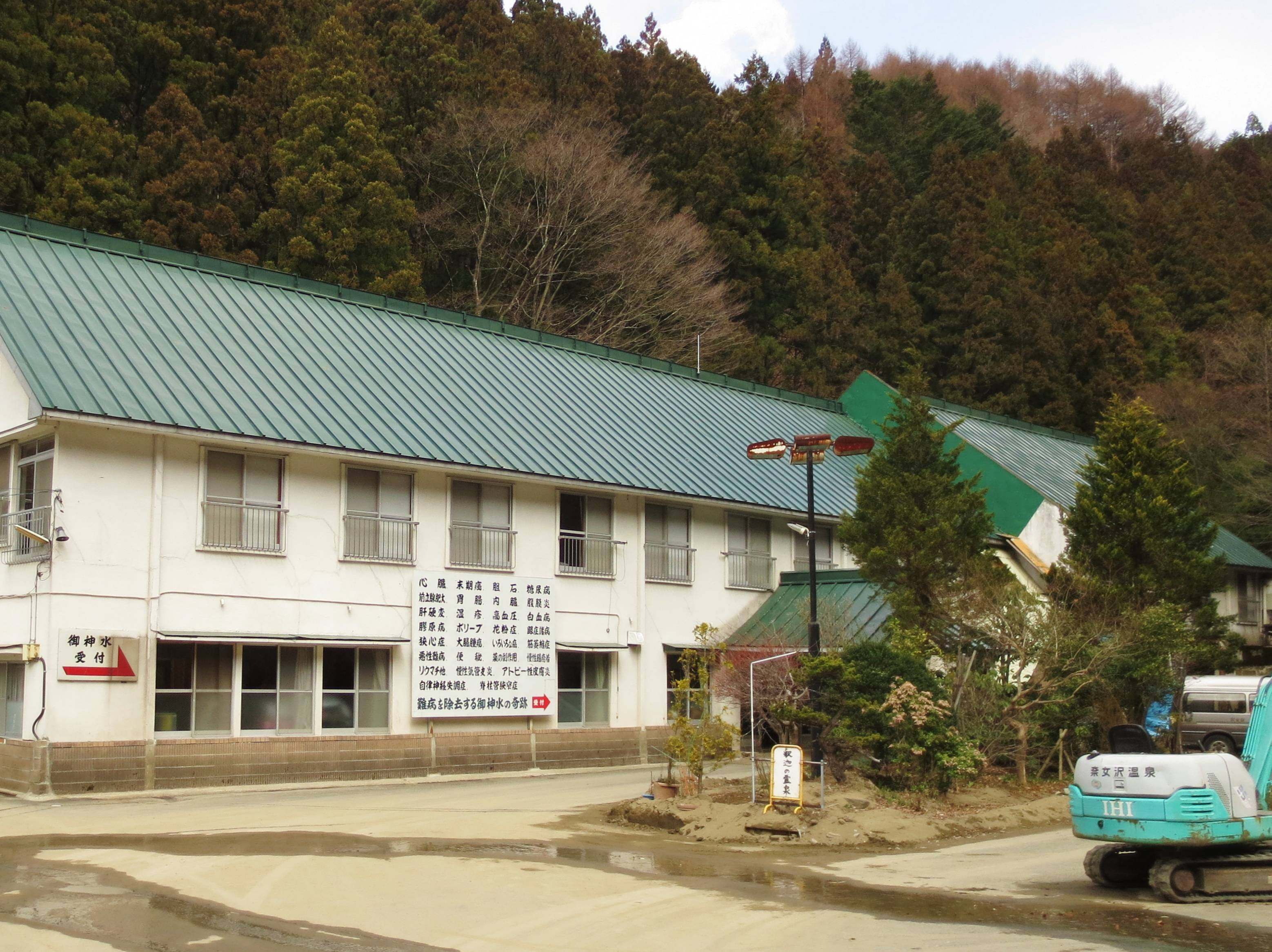 Namezawa Onsen.